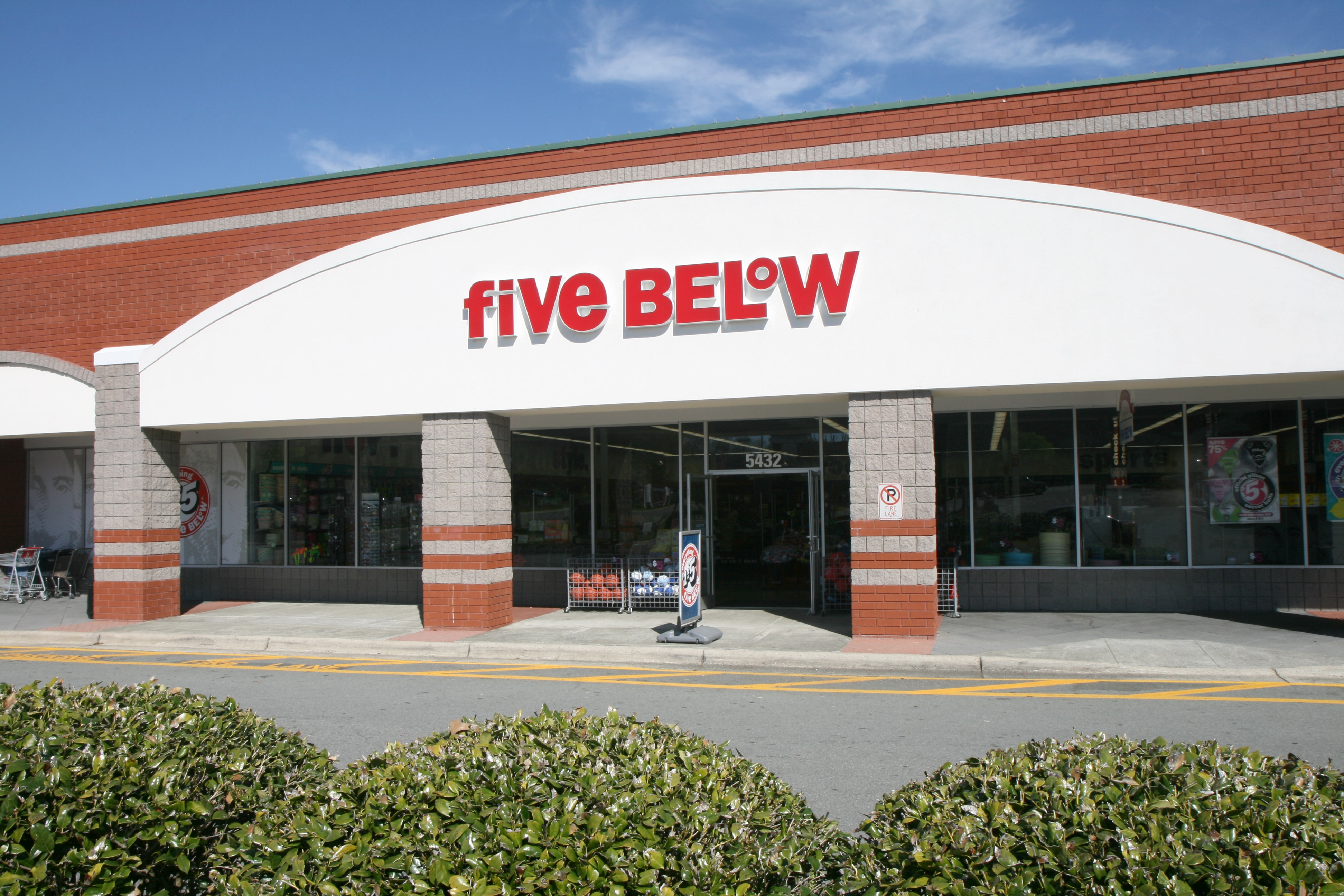 Five Below at New Hope Commons, a shopping centre in Durham, North Carolina.